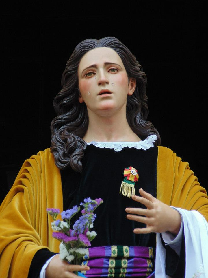 Mary Magdalene of Villarrobledo